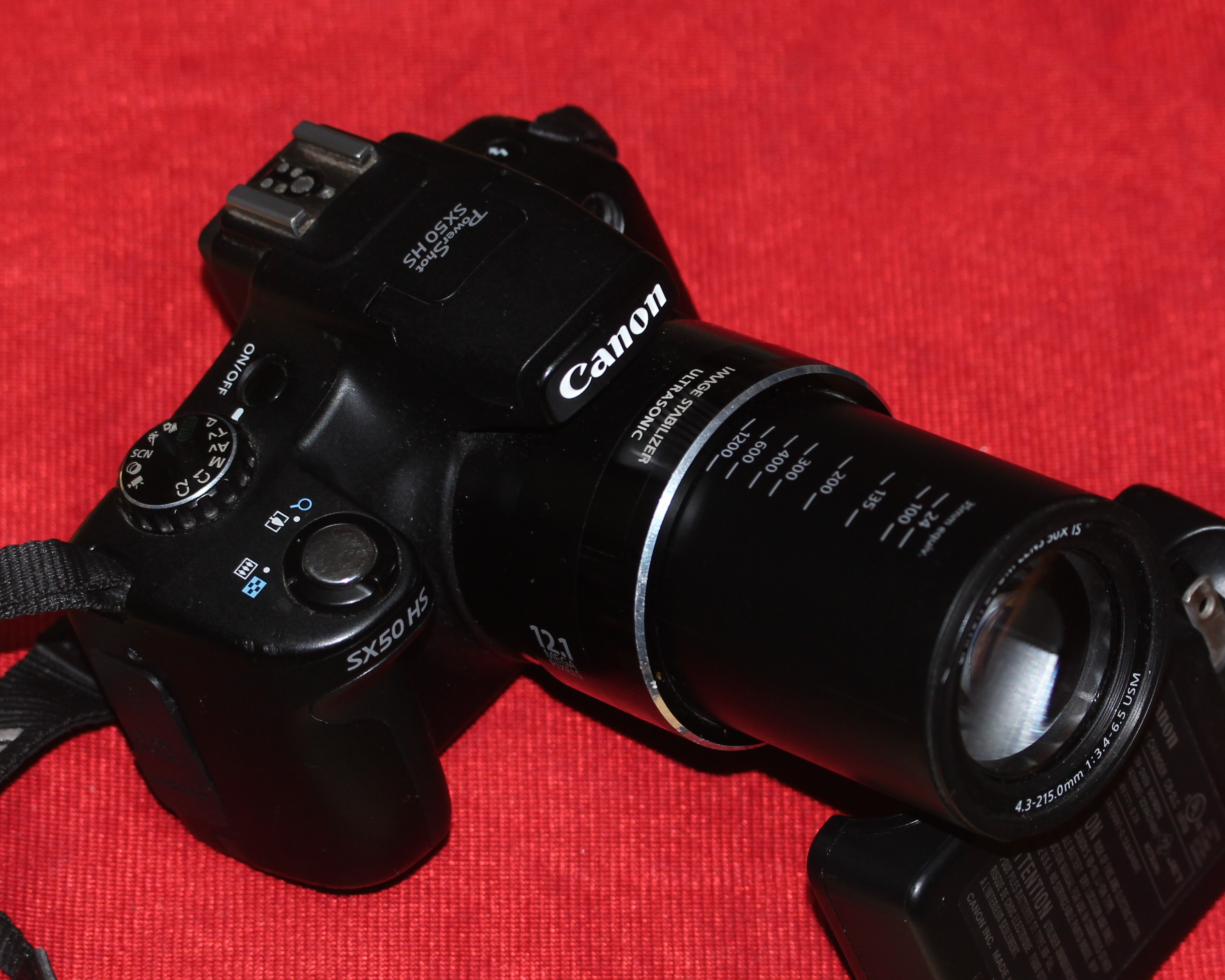 Canon PowerShot SX50 HS